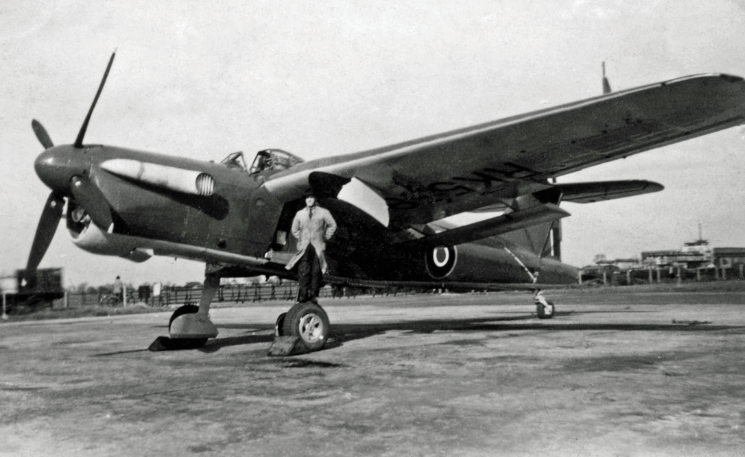 Fairey Barracuda TF.V RK558 at Manchester (Ringway) Airport.